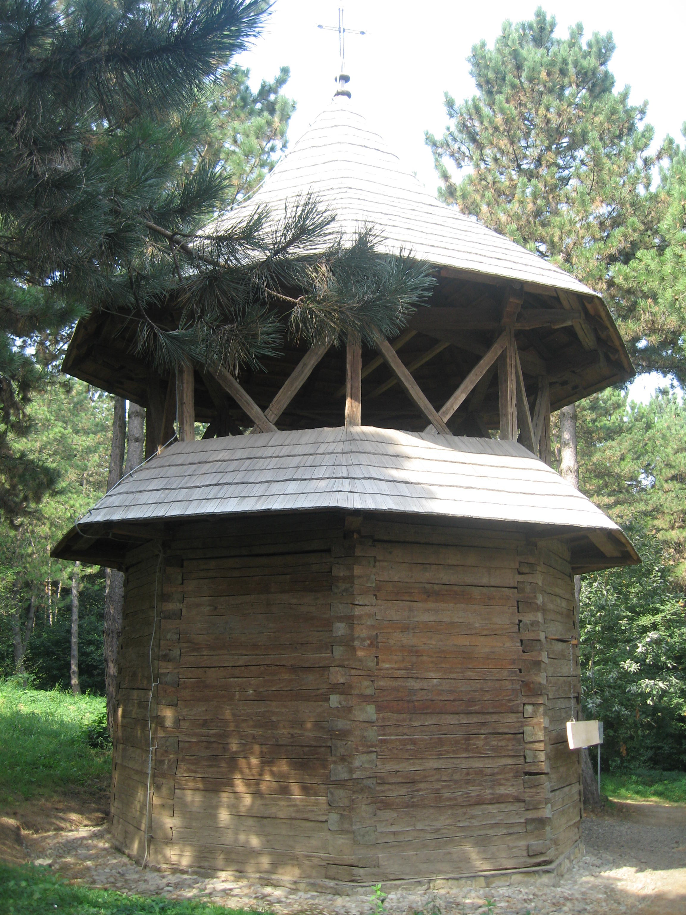 Bukovina Village Museum - Ascension Wooden Church from Vama (the bell tower).